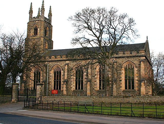 St Rufus Kirk This gothic edifice dates from 1816. It is now the parish kirk of the united charge of Keith and Botriphnie.